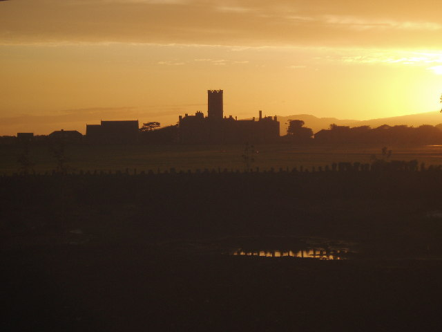 Sunset: King William's College. View from Seanook